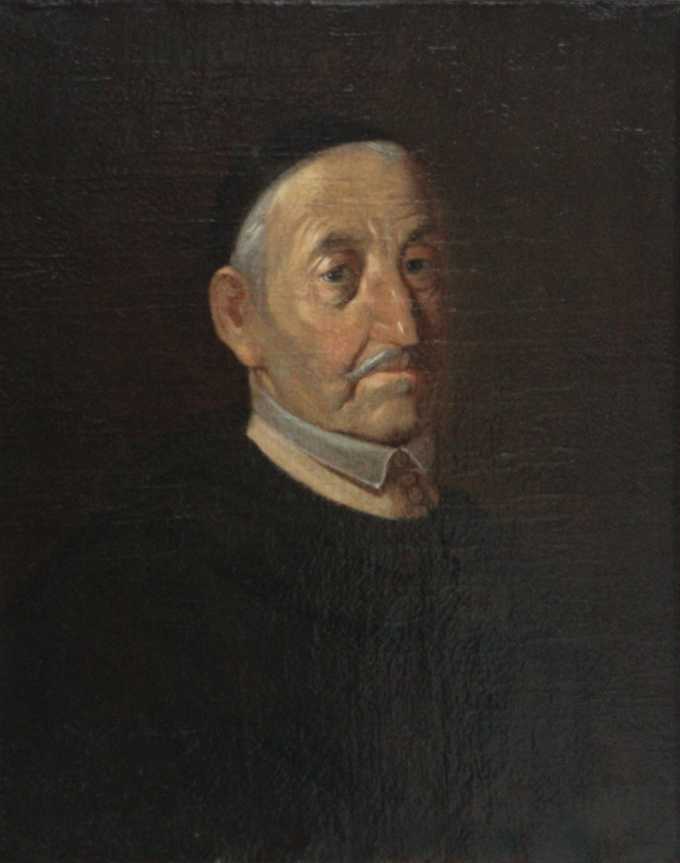 Michael Willman Portrait of Arnold Freiberger of Lubiąż (1672) in National Museum in Wroclaw (originally in Cistercian monastery, Lubiąż Abbey).